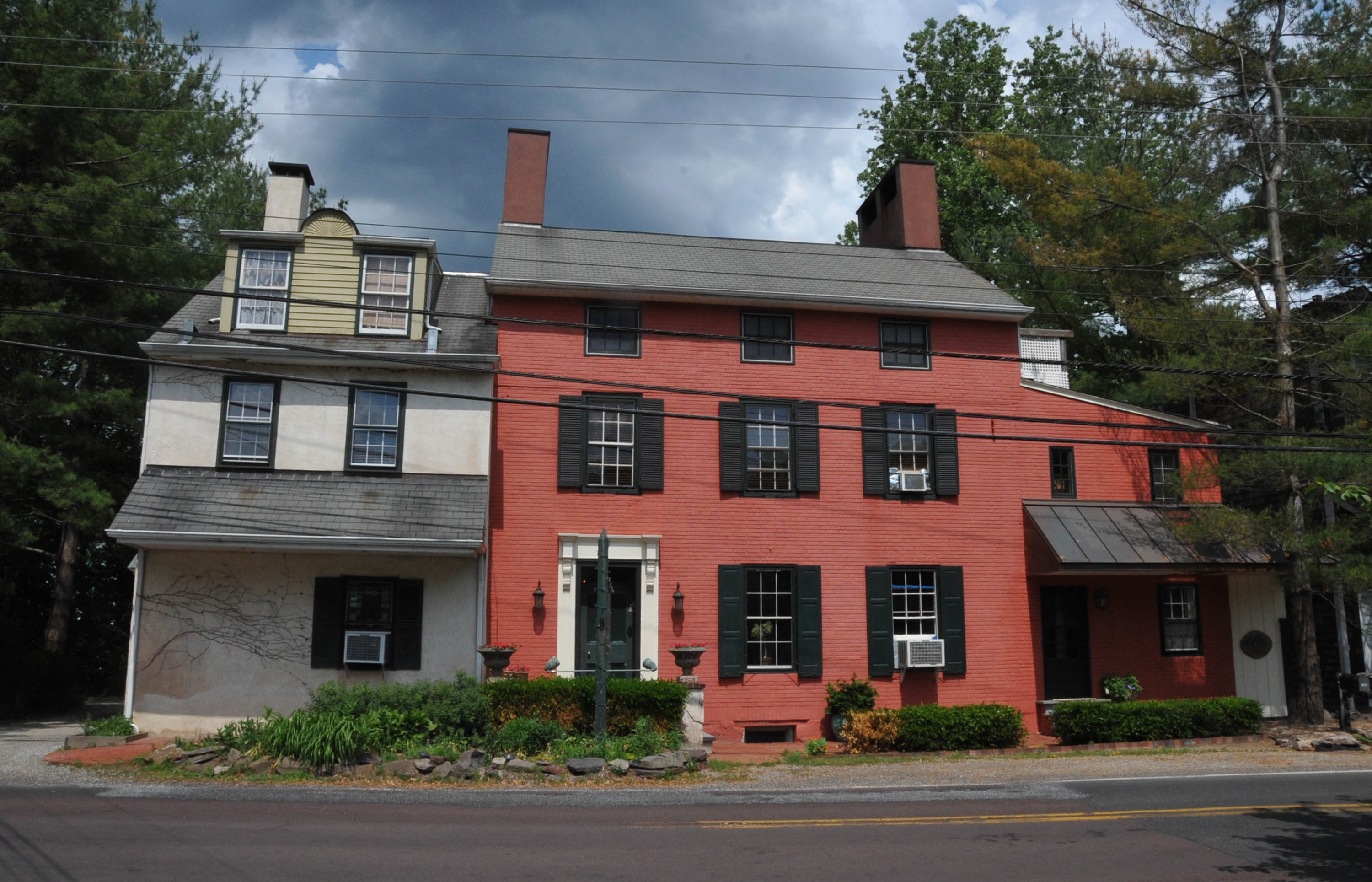 BRIDGETOWN HOUSE FROM 1836 IN UPPER BLACK EDDY ALONG THE DELAWARE RIVER